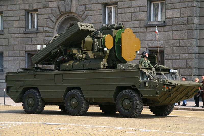 Bulgarian SA-8 truck.